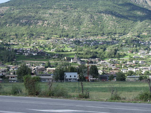 Overview of Saint-Christophe (Aosta Valley, Italy)